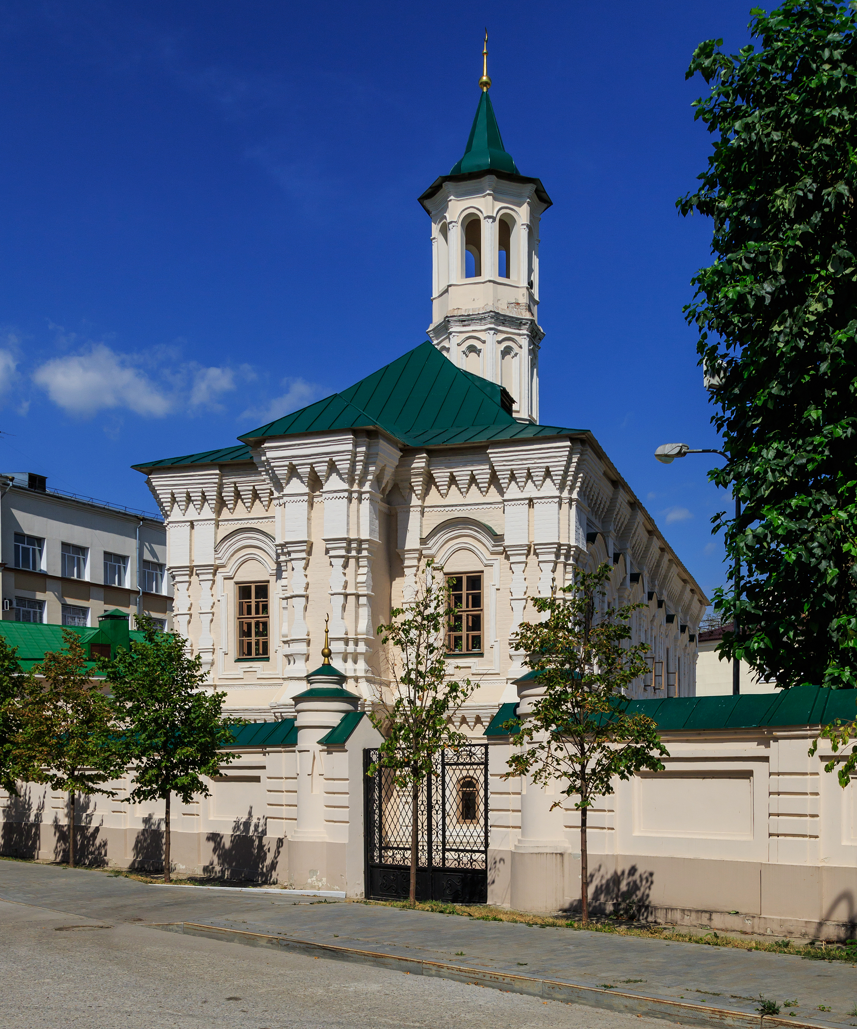 Apanayev Mosque in Kazan, Russia